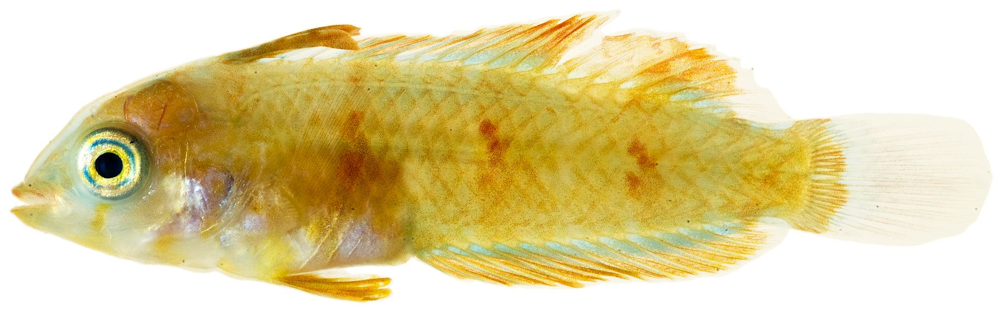 Xyrichtys splendens Castelnau, 1855—green razorfish, 15.1 mm SL, young juvenile color phase. Photo by JT Williams.